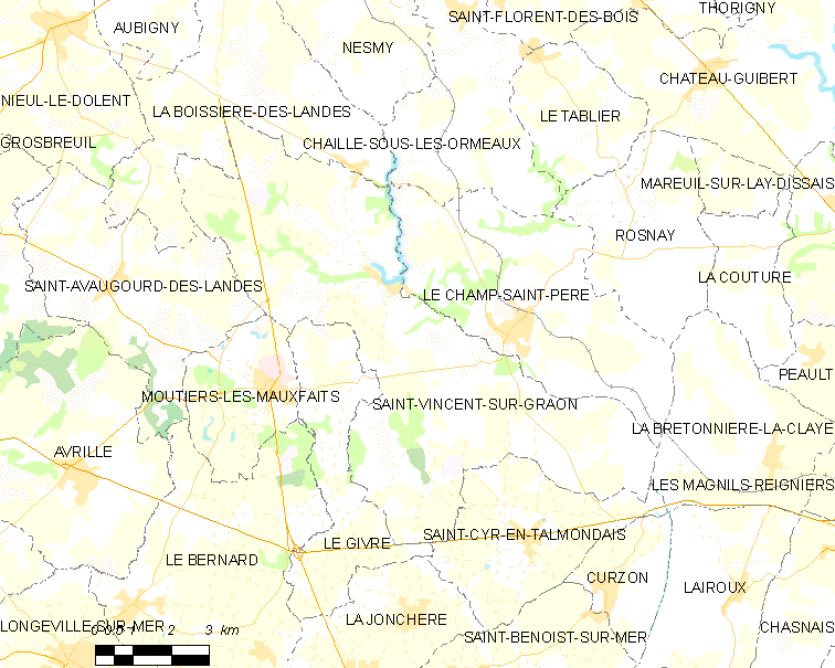 Map of French municipality Saint-Vincent-sur-Graon